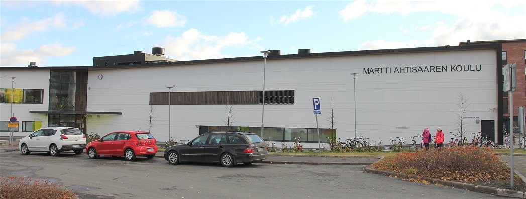 Martti Ahtisaari School in Kuopio, Finland.